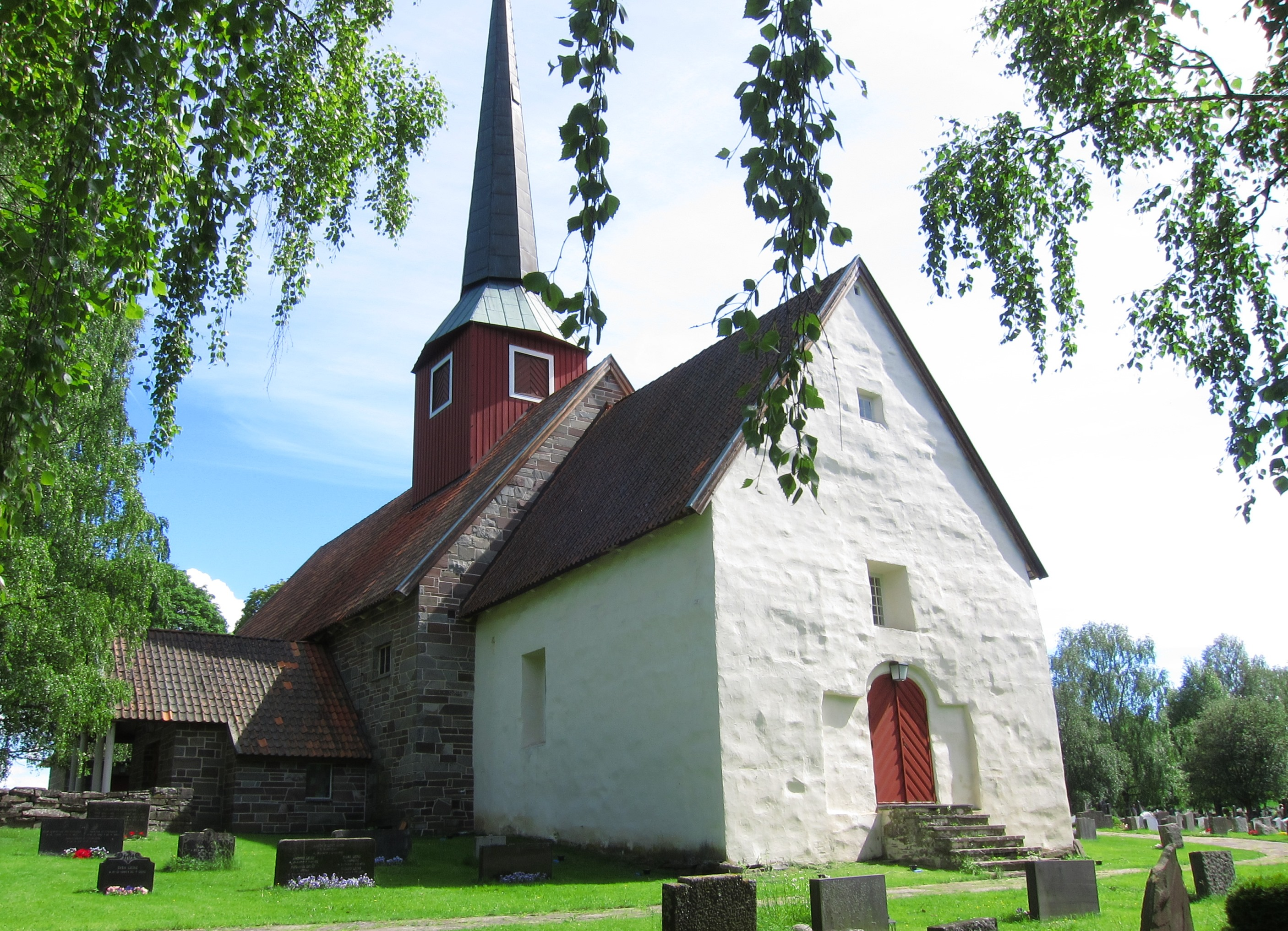 Western facade of Hole kirke, Buskerud, Norway